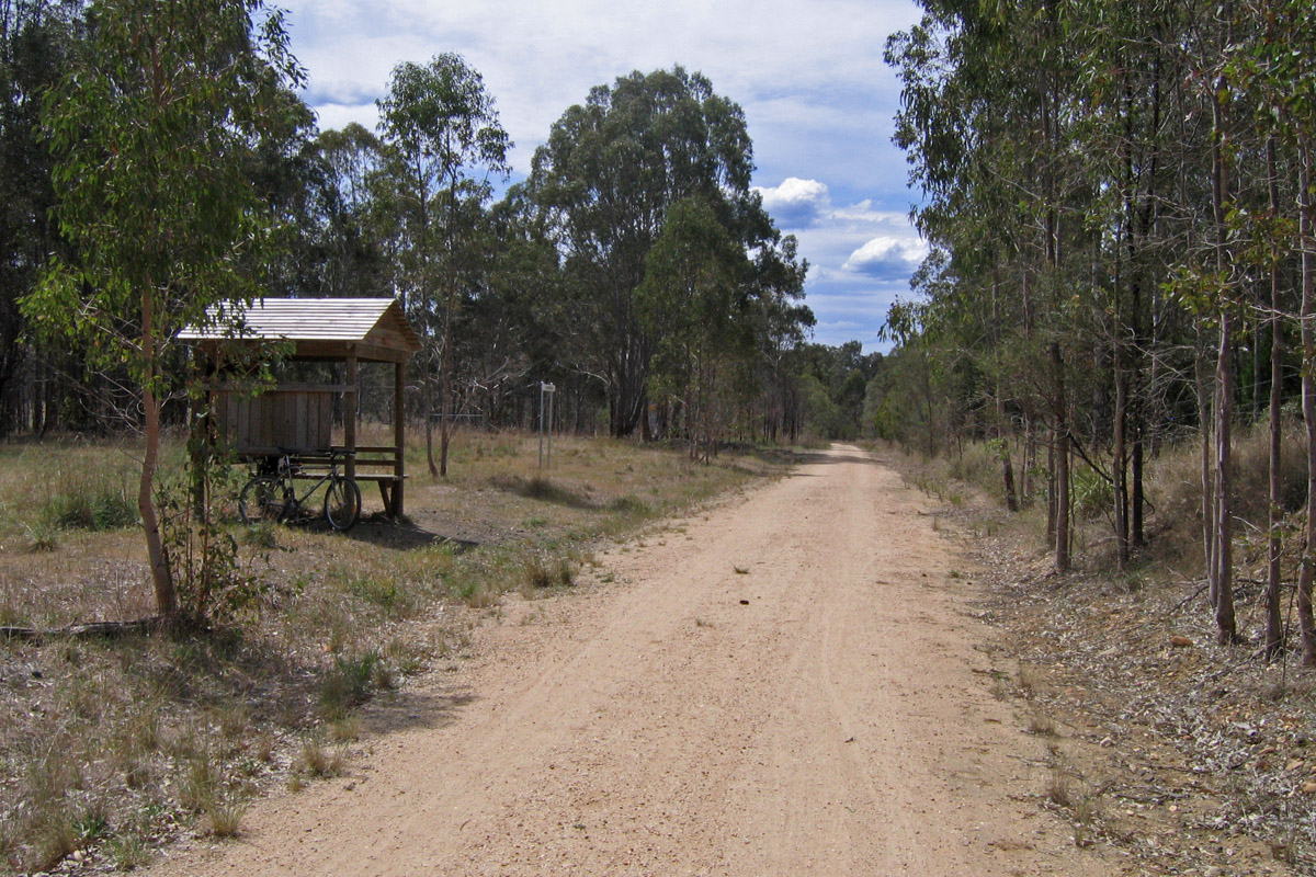 Looking north (towards Bruthen) on the East Gippsland Rail Trail at the site of the former Bumberrah Railway Station, Victoria, Australia.